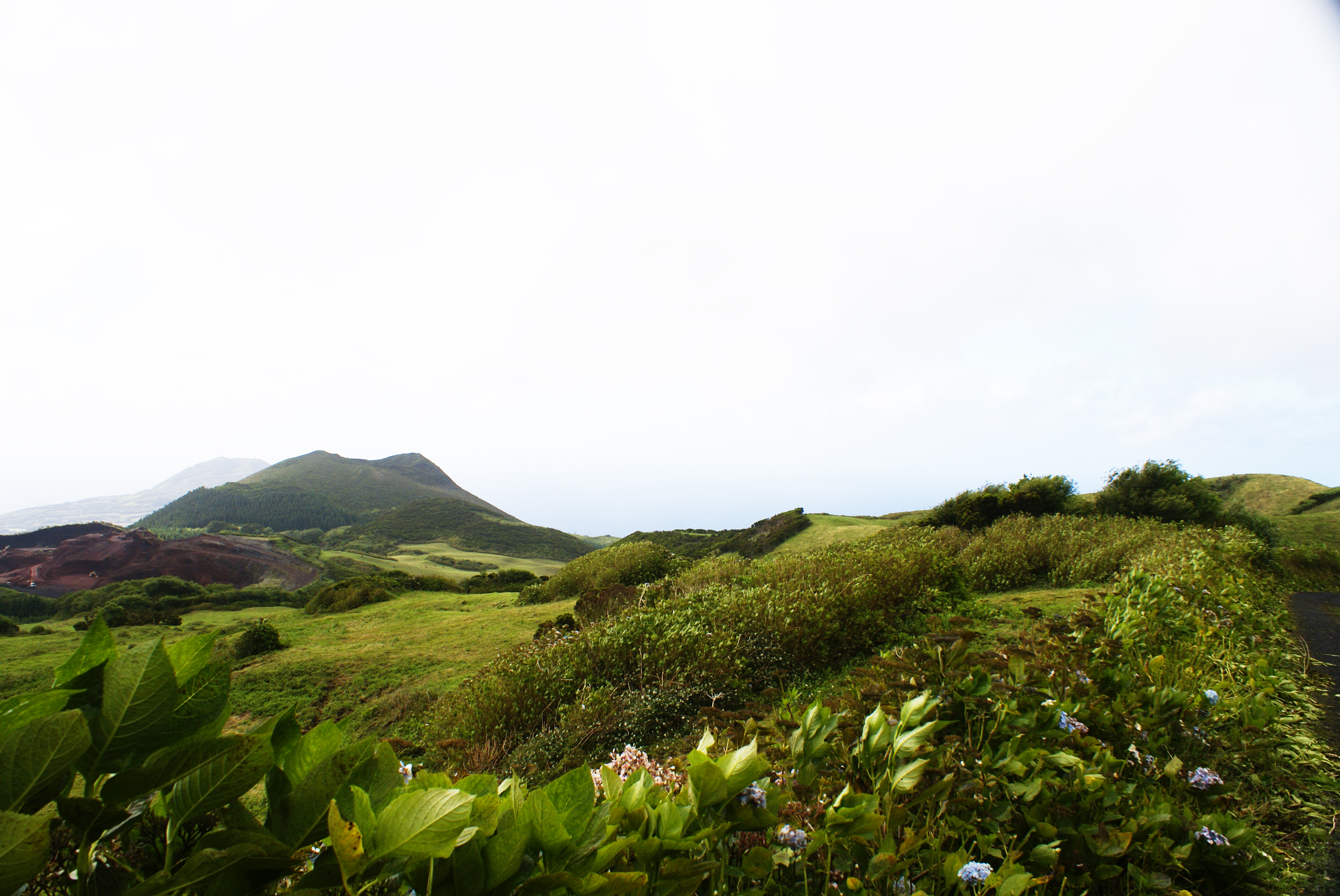 Interior da ilha do Faial, Açores, Portugal